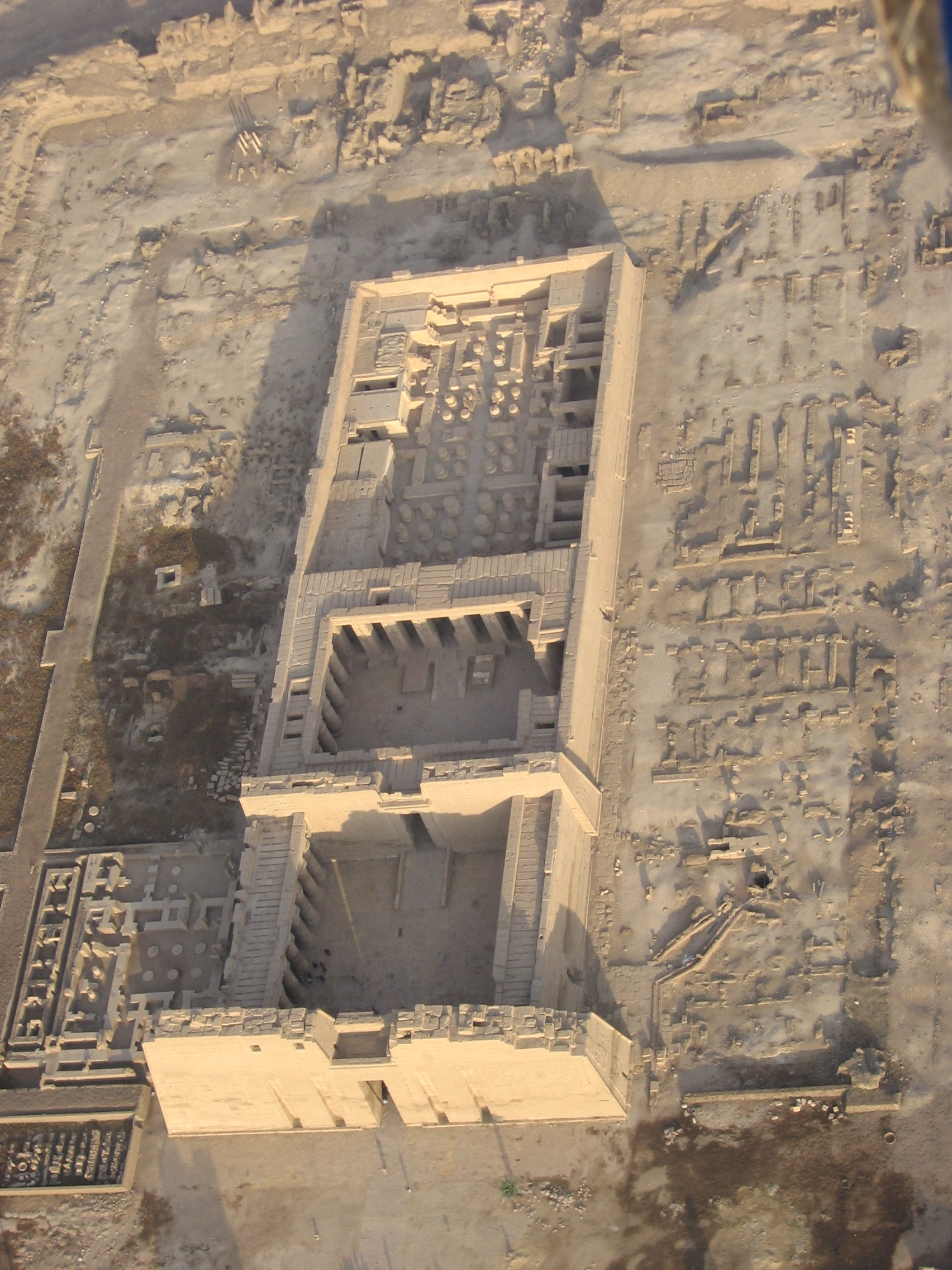 Aerial view of the temple of Ramses III at Medinet Habu